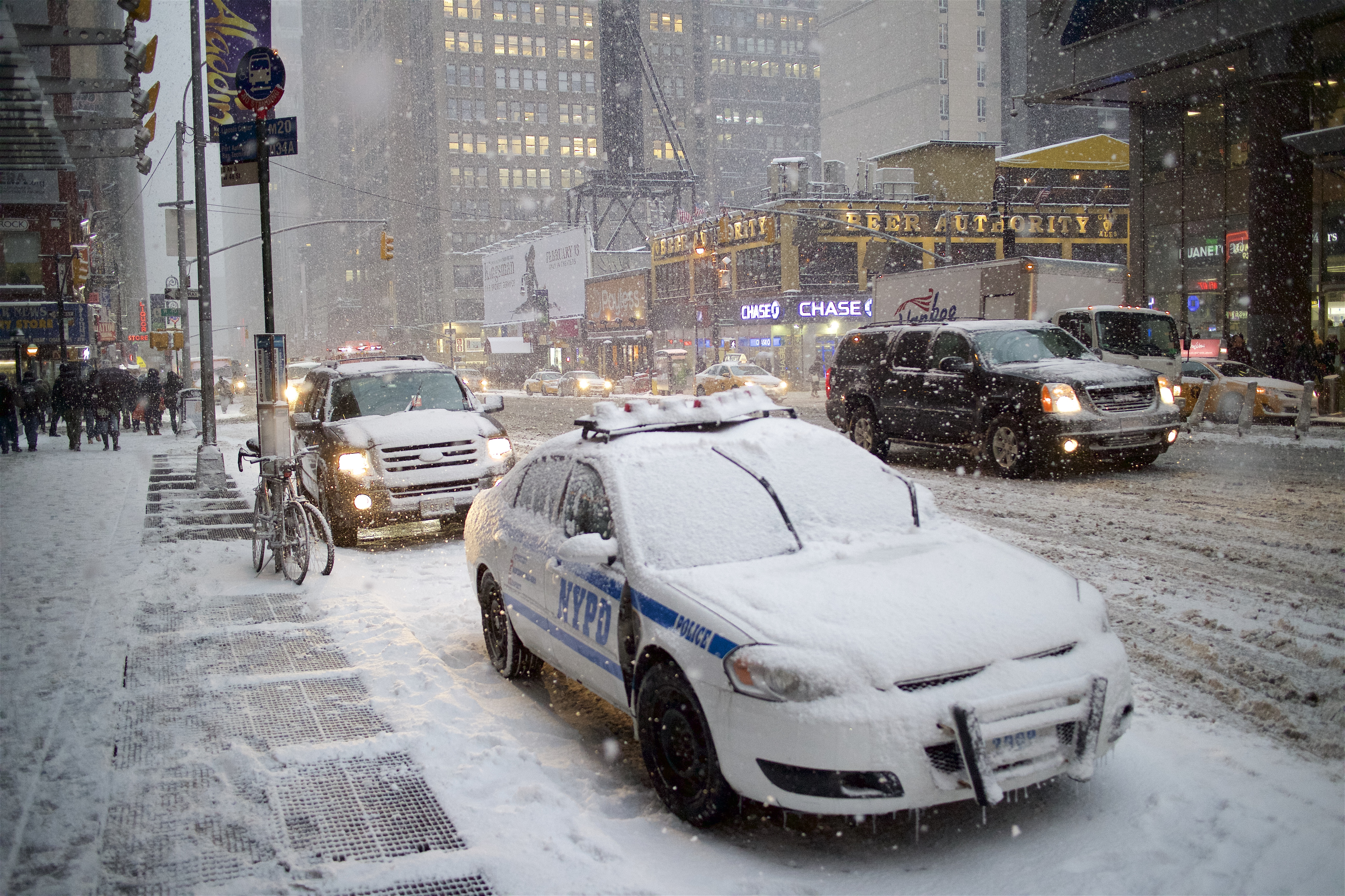 Snow builds up on the street and on vehicles along Eighth Avenue in New York City during Winter Storm Juno, January 26, 2015.